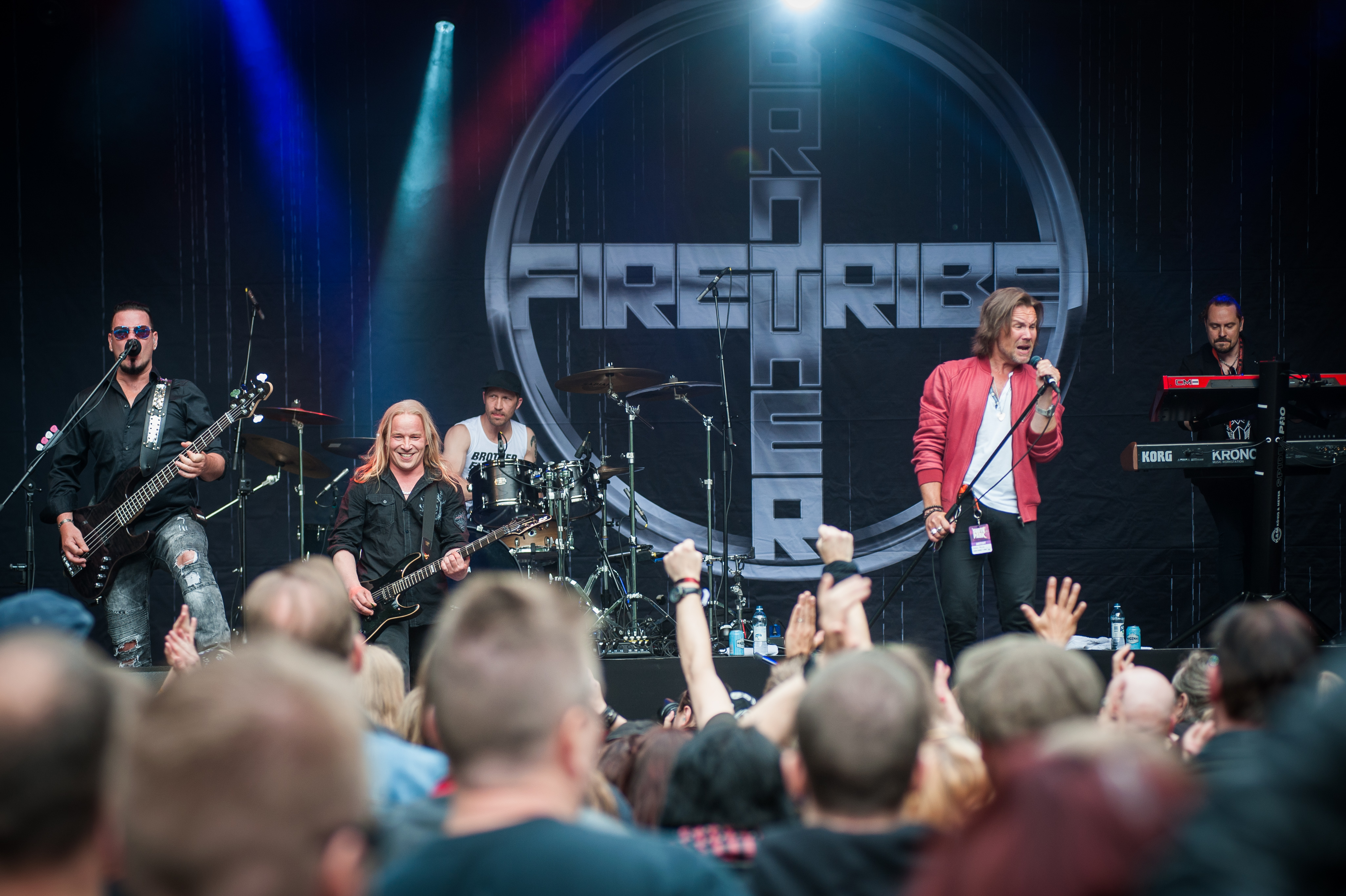 Finnish hard rock band Brother Firetribe performing at the 2018 South Park Festival in Tampere, Finland.